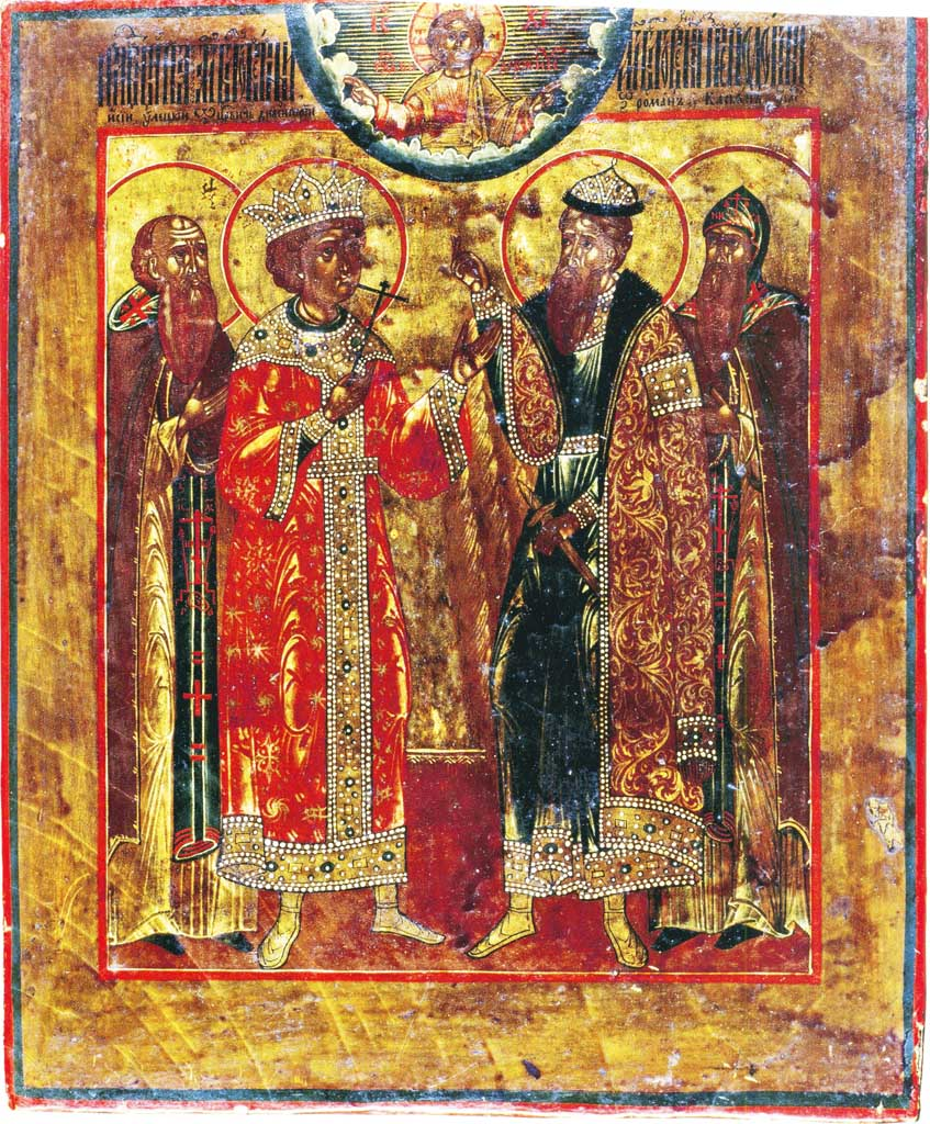 Saints of Uglich: Paisiy of Uglich, Tsarevitch Dmitriy, Roman of Uglich, Kassian from Uchma.